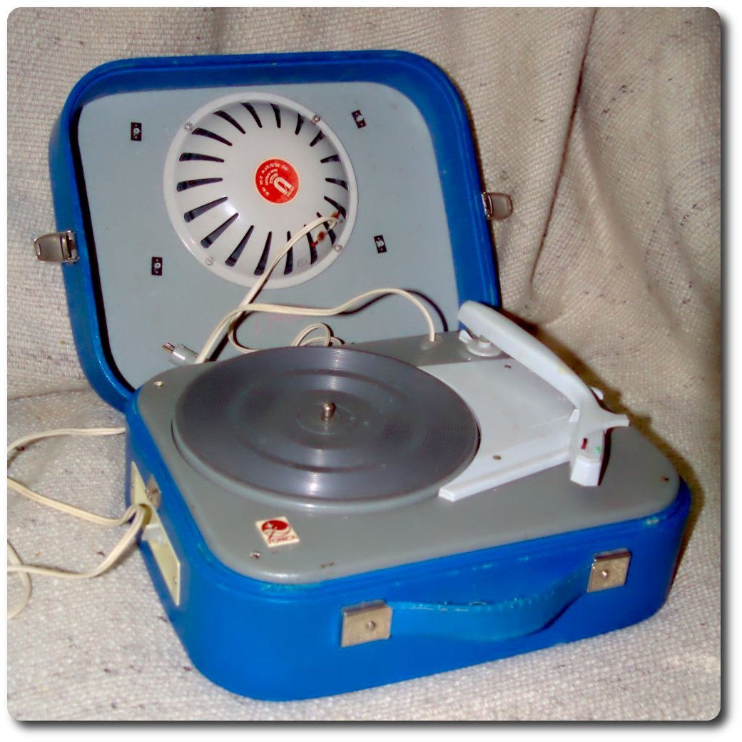 Polish gramophone Fonica Tranzyston